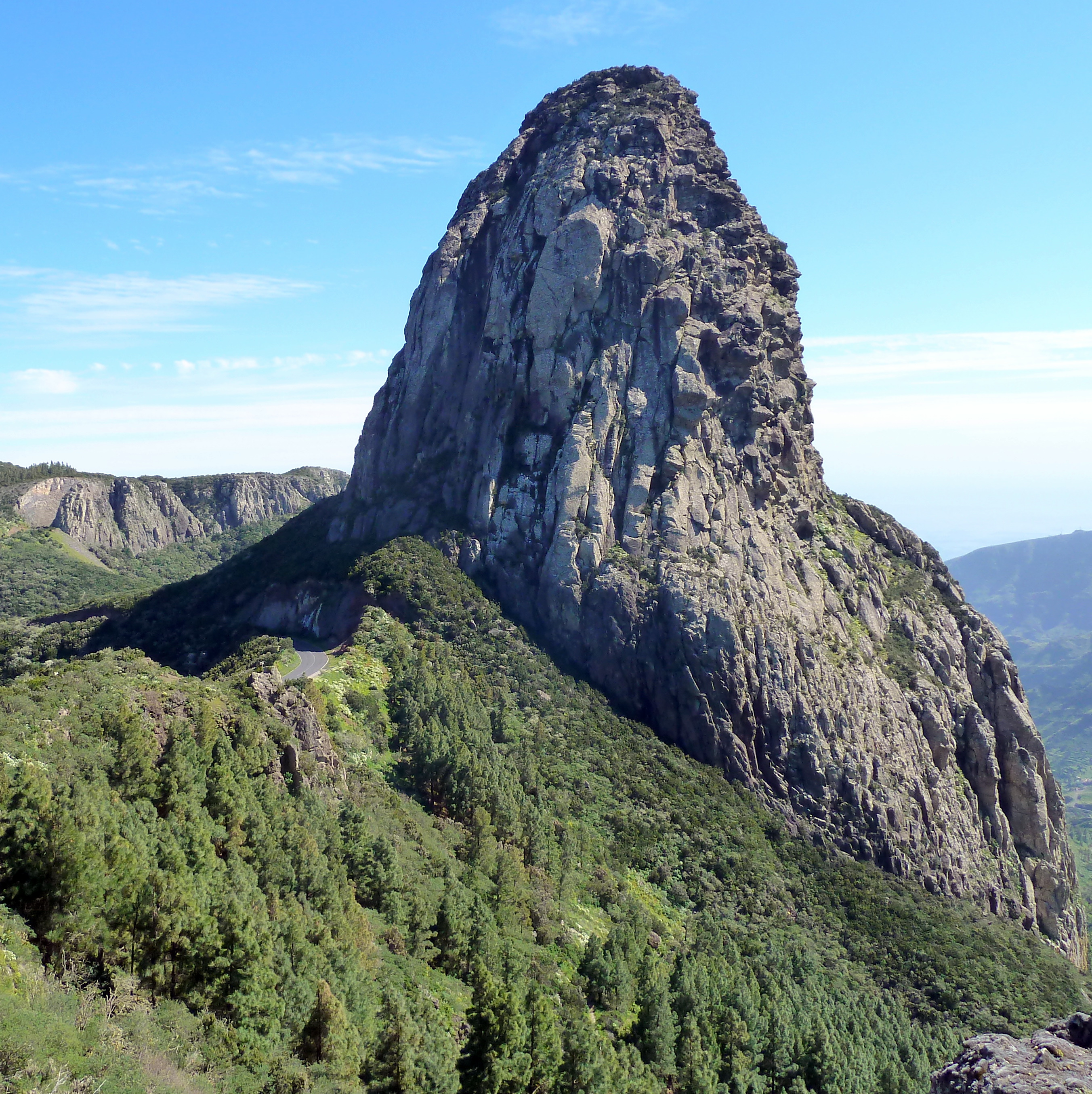 Phonolite Roque de Agando, La Gomera near Mirador Del Morro De Agando